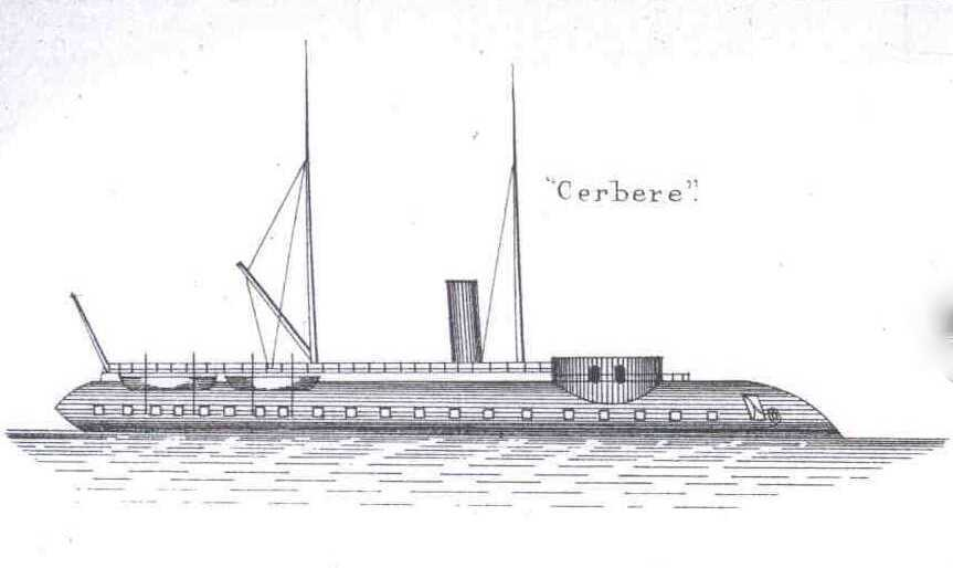 French Cerbere class of armoured rams